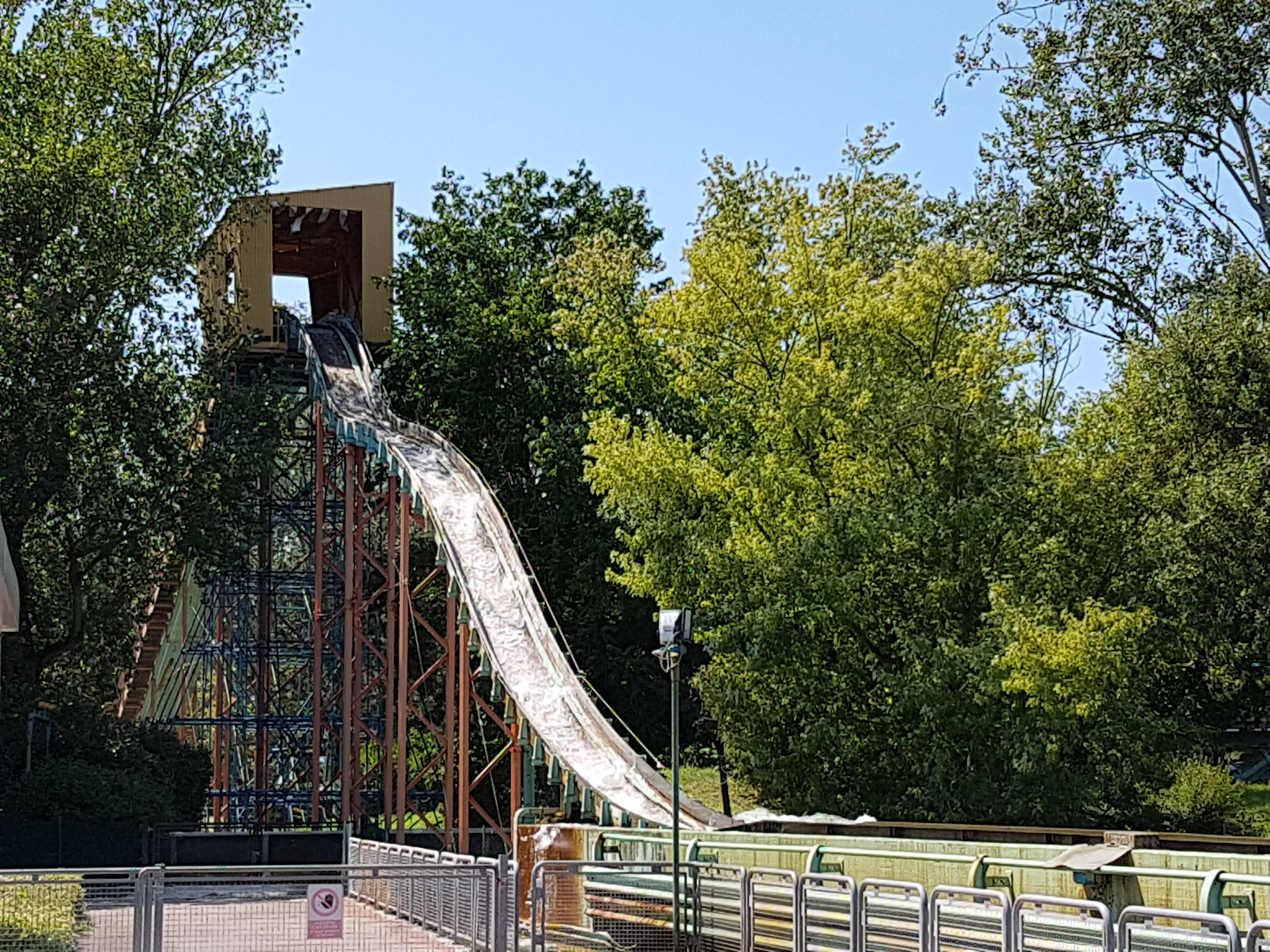 Autosplash in Mirabilandia